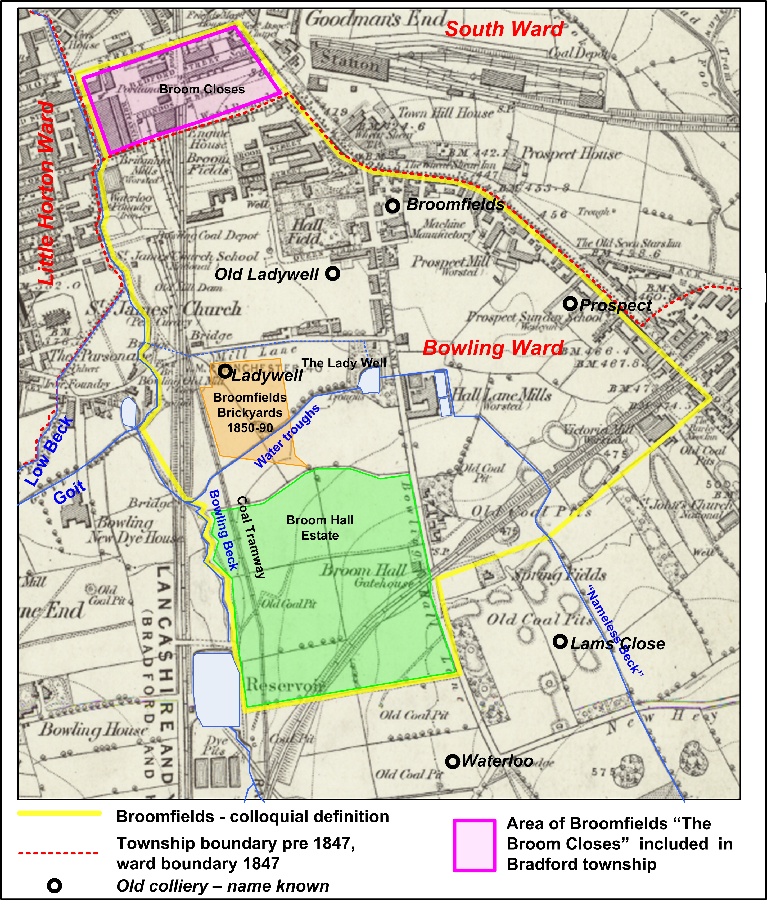 Broomfields, extract from 6" OS map updated to 1854 Other information Additional information added in Visio